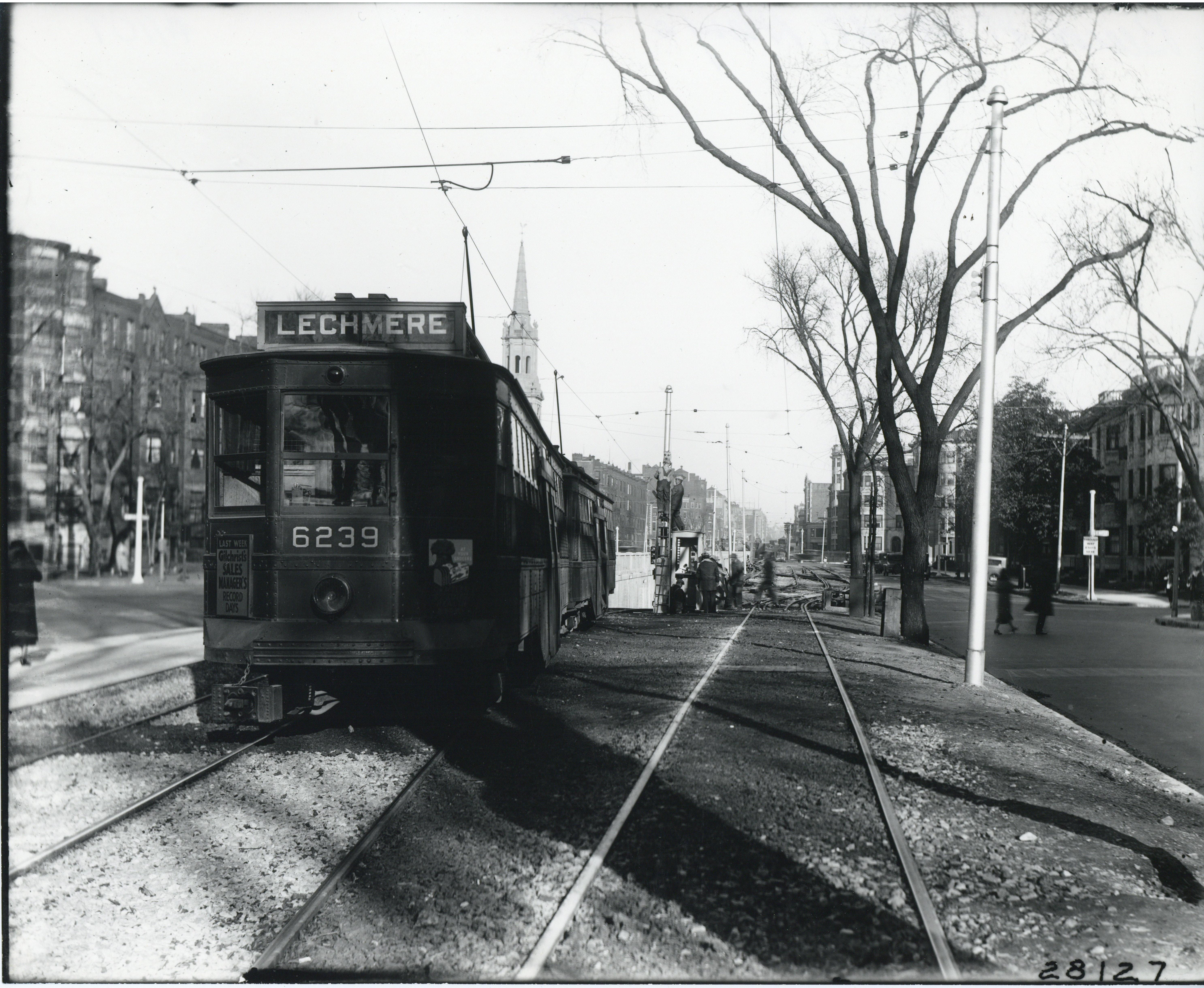 A streetcar enters the St Marys Street portal in October 1932, one day after it opened. The temporary shoo-fly tracks used to run the surface line during construction of the subway are visible at back right.